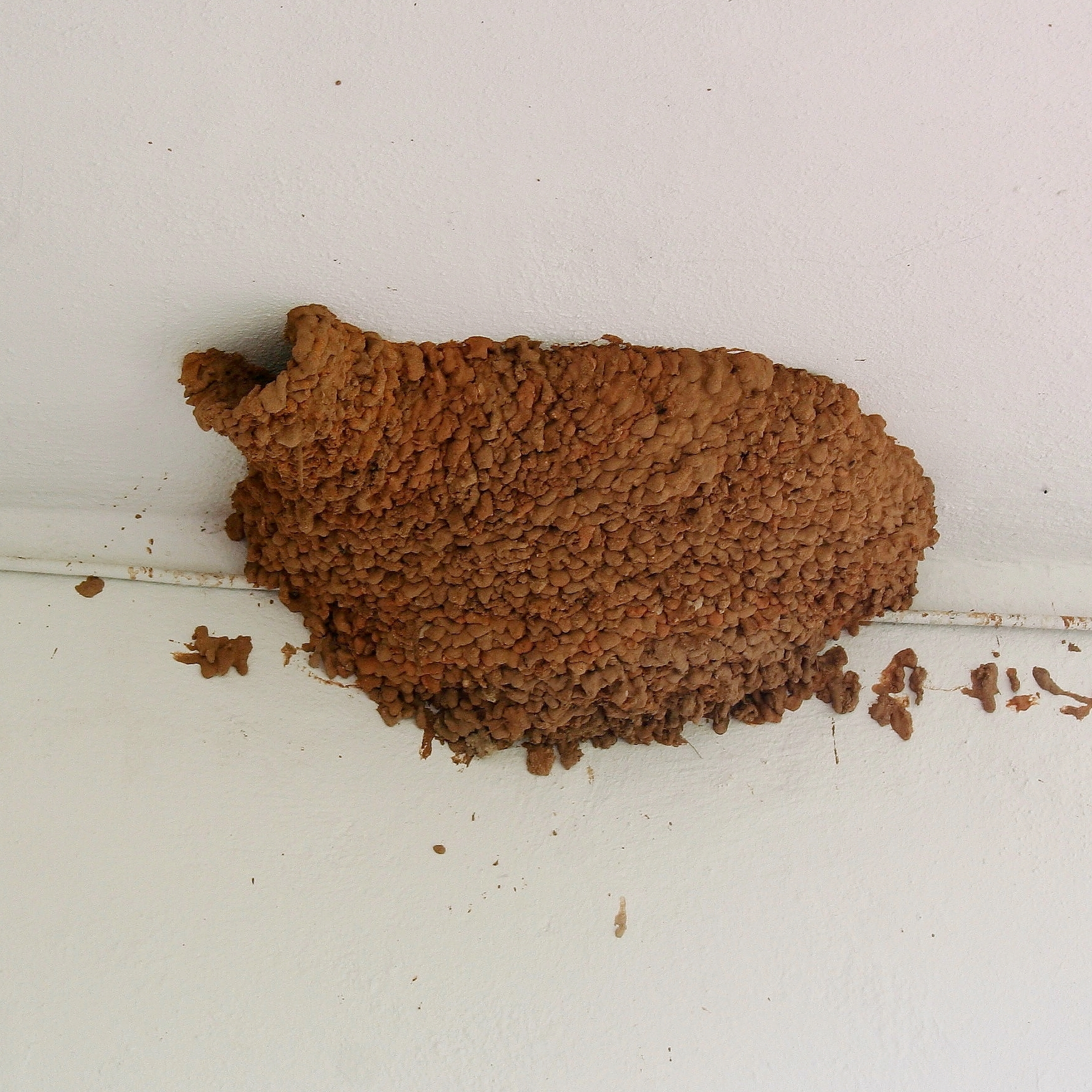 Nest of Hirundo daurica in Algarve, Portugal